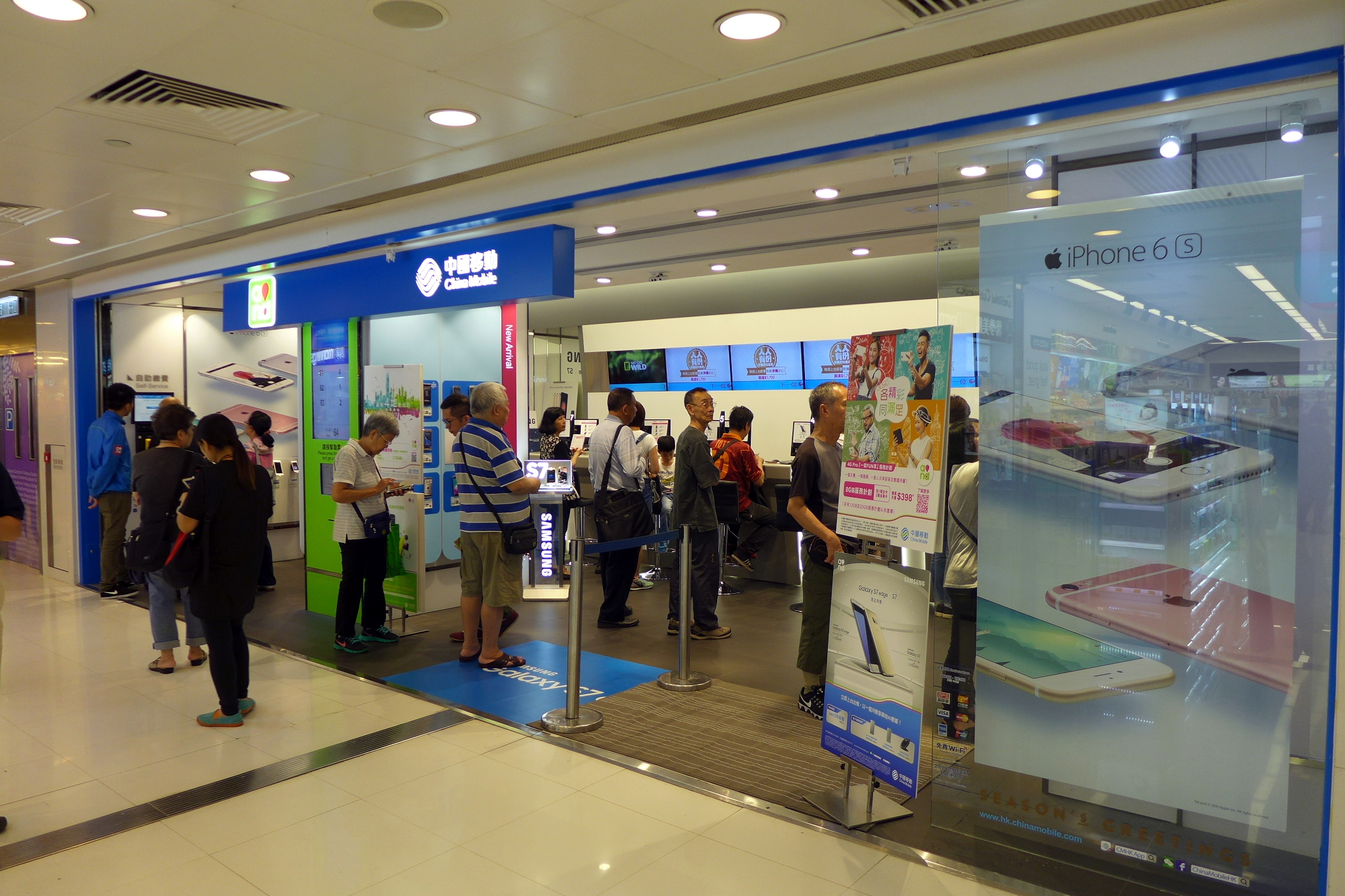 China Moblie shop in Shatin Plaza